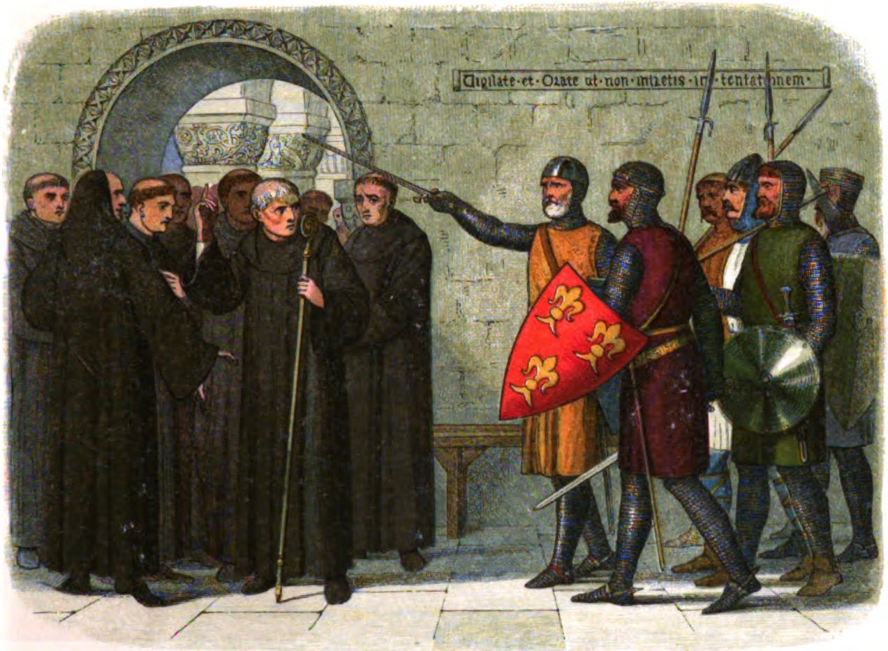 Fulk de Cantelupe and Henry de Cornhill, sheriff of Kent, are sent by King John to expel the monks from Christchurch, Canterbury.